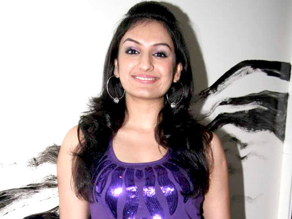 Akriti Kakkar at Radio One's karaoke sessions